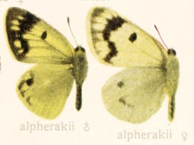 Plate 25 from Seitz, A. ed. , 1906 The Macrolepidoptera of the world; a systematic description of the hitherto known Macrolepidoptera Volume I The Palearctic Butterflies. Alfred Kernen. Stuttgart Colias alpherakii Staudinger, 1882